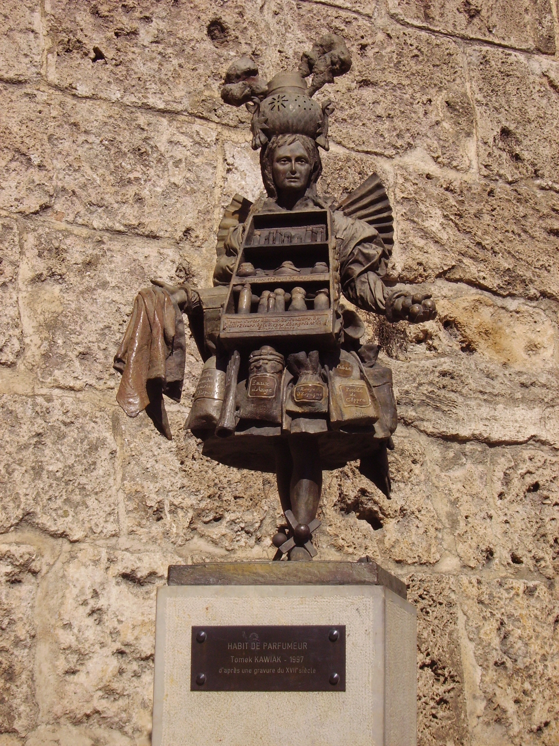 Photographer: User:Ballista